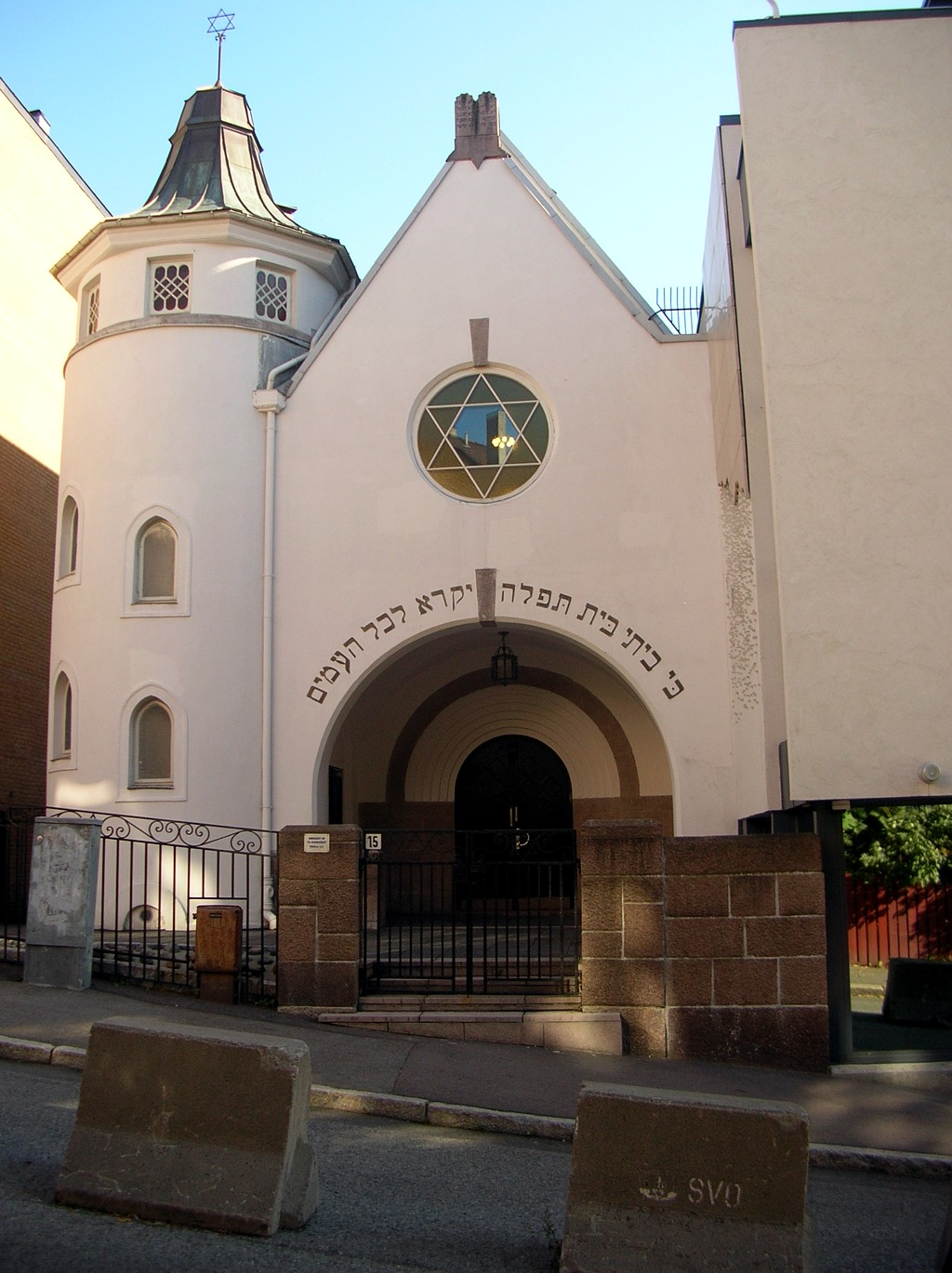 Synagogue in Oslo, NorwayNorsk bokmål: Synagoge i Oslo, Norge